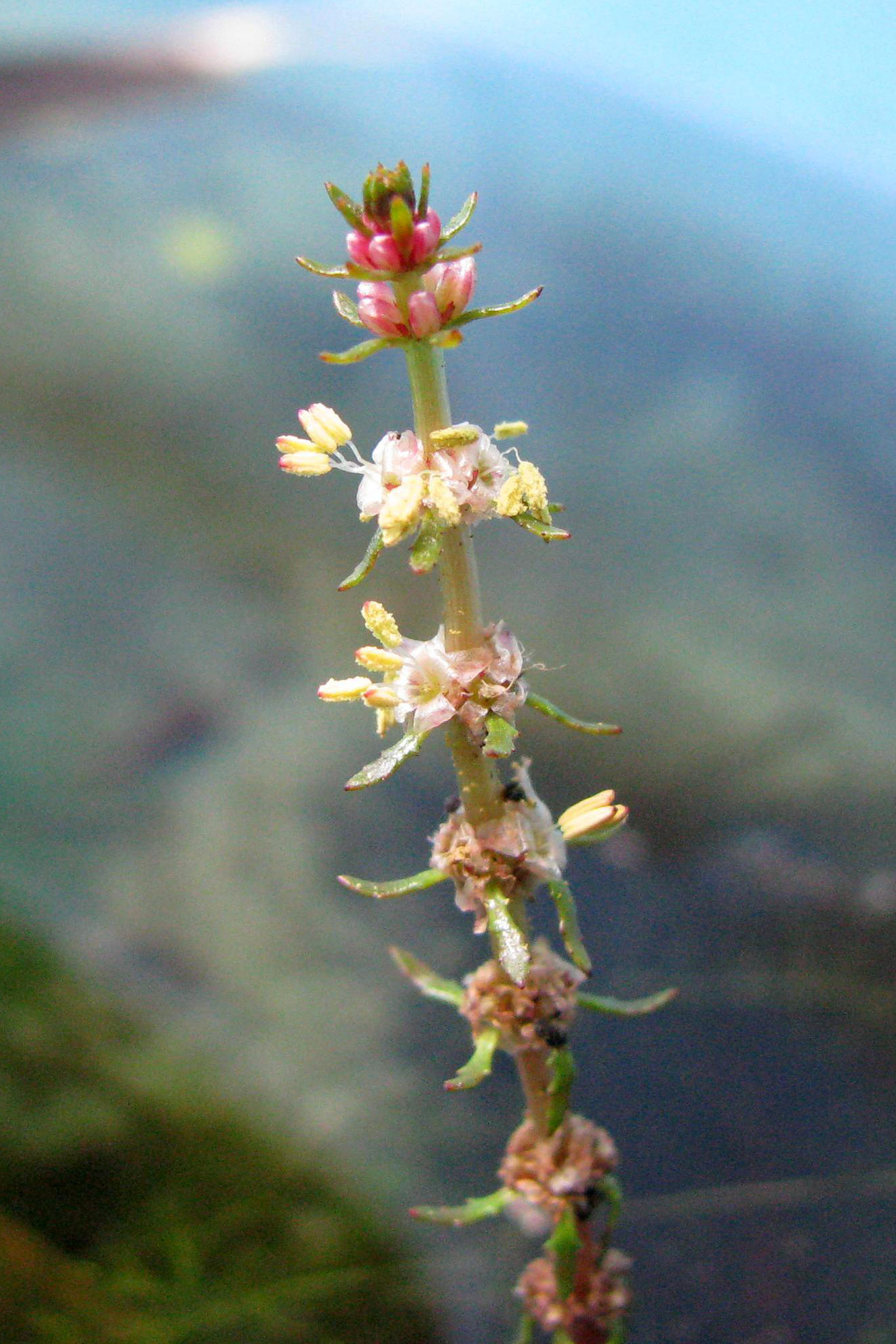 twoleaf watermilfoil - Myriophyllum heterophyllum Michx.